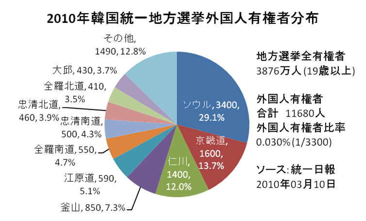 Numbers of foreign voters in S. Korea (2010)